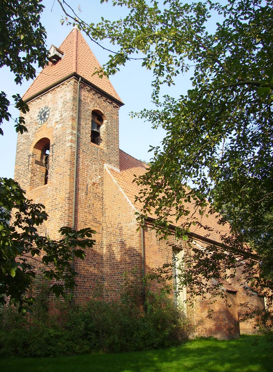 The Evangelical Lutheran Martin Church in Schiffdorf, Cuxhaven district, Lower Saxony, Germany.